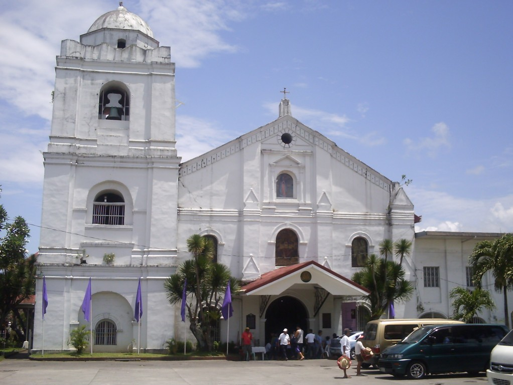 Our Lady of Guadalupe Parish Church Pagsanjan, Laguna